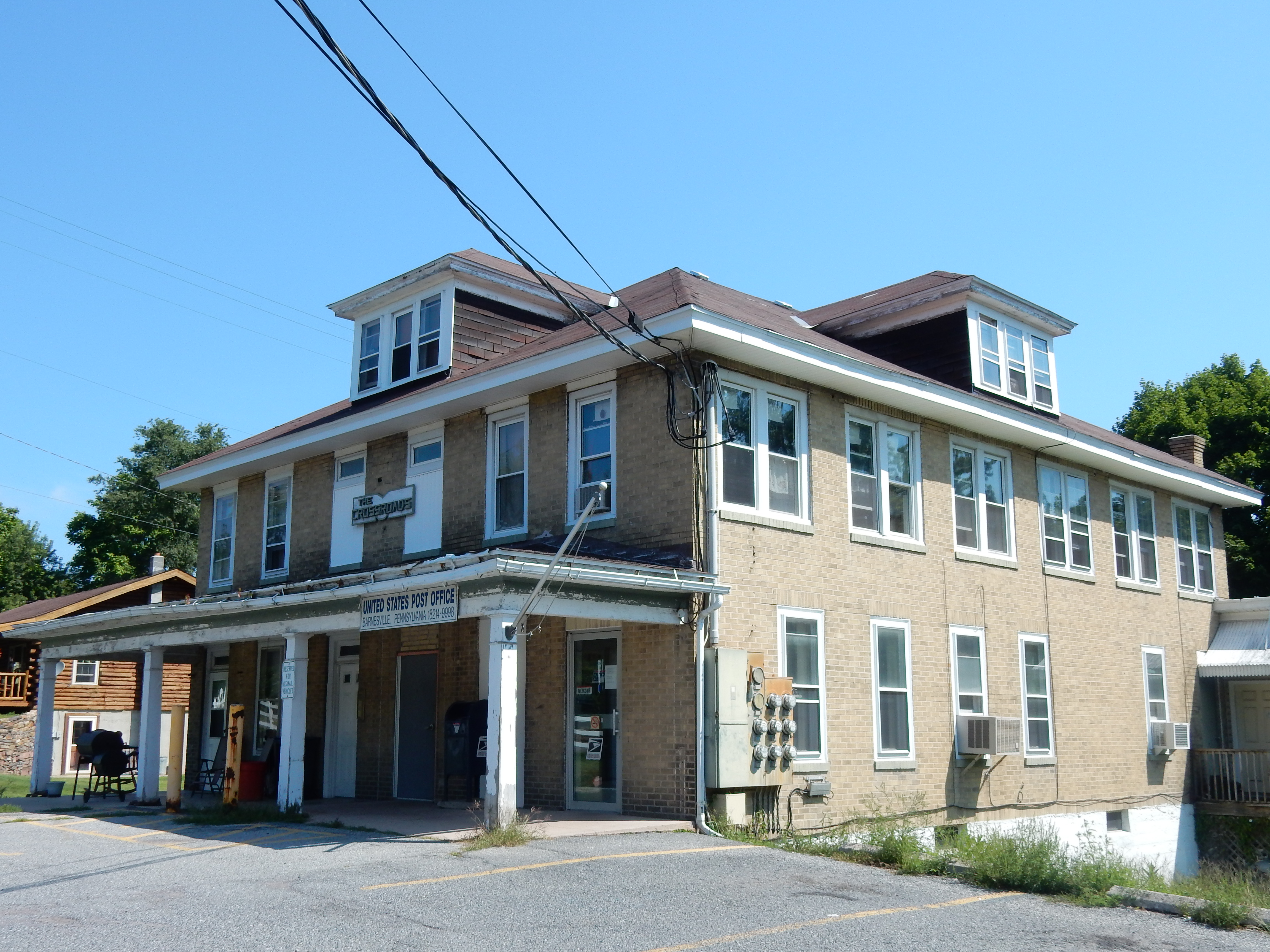 Post Office, zip code 18214-9998, Barnesville, Pennsylvania. This part of Barnesville is located in Rush Township, Schuylkill County, Pennsylvania.